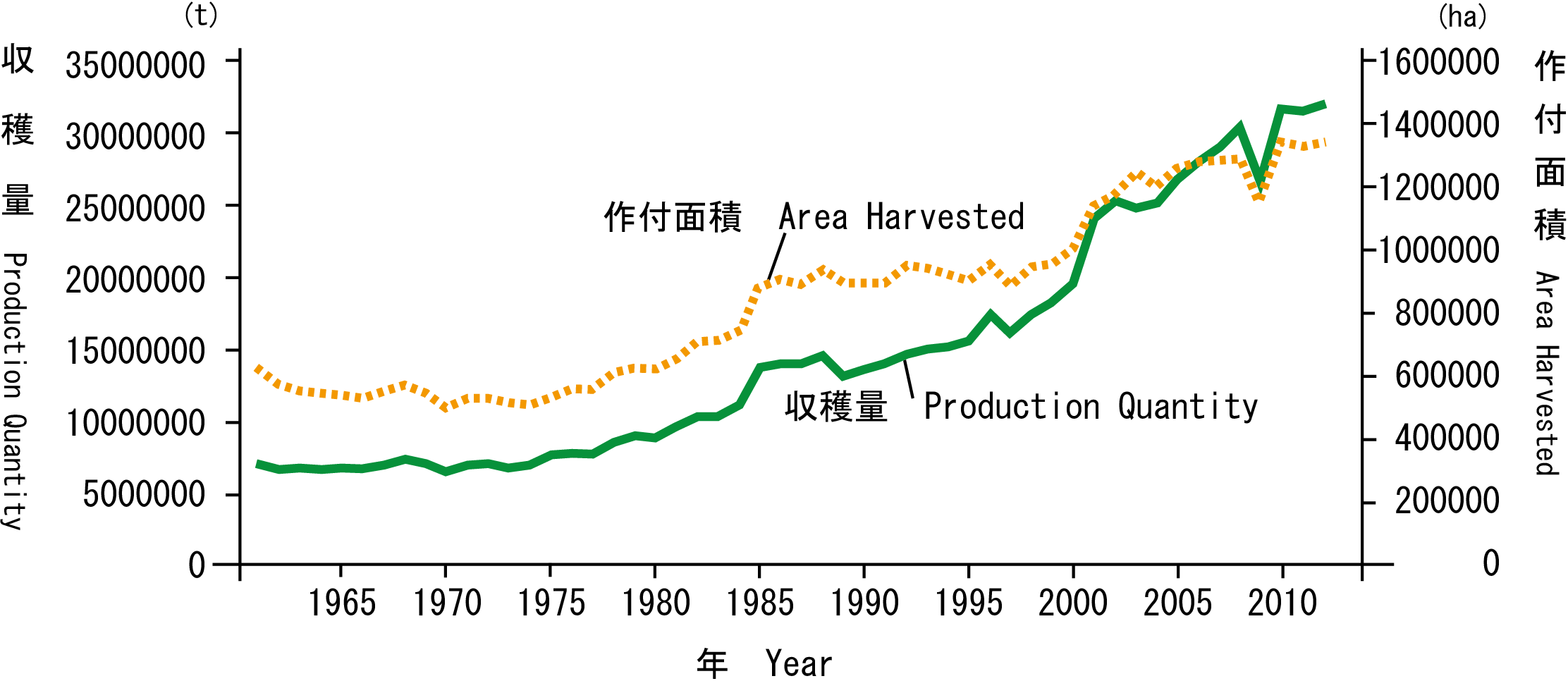 These graphs show production quantity and area harvested of melons, other (inc.cantaloupes) in the world from 1961 to 2012. Data source is FAOSTAT.